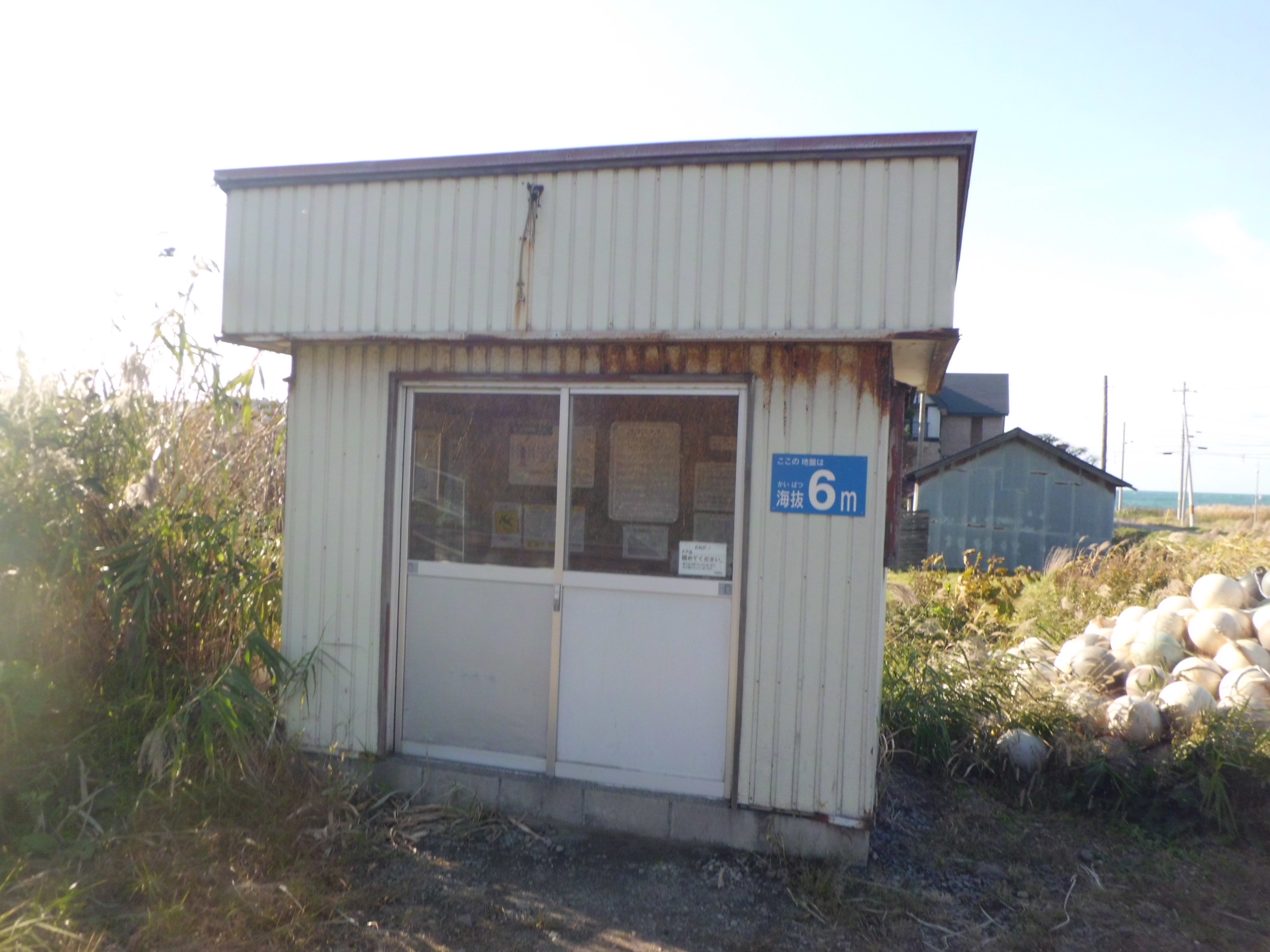 The waiting room at Shumonbetsu Station on the Rumoi Main Line in Hokkaido, Japan